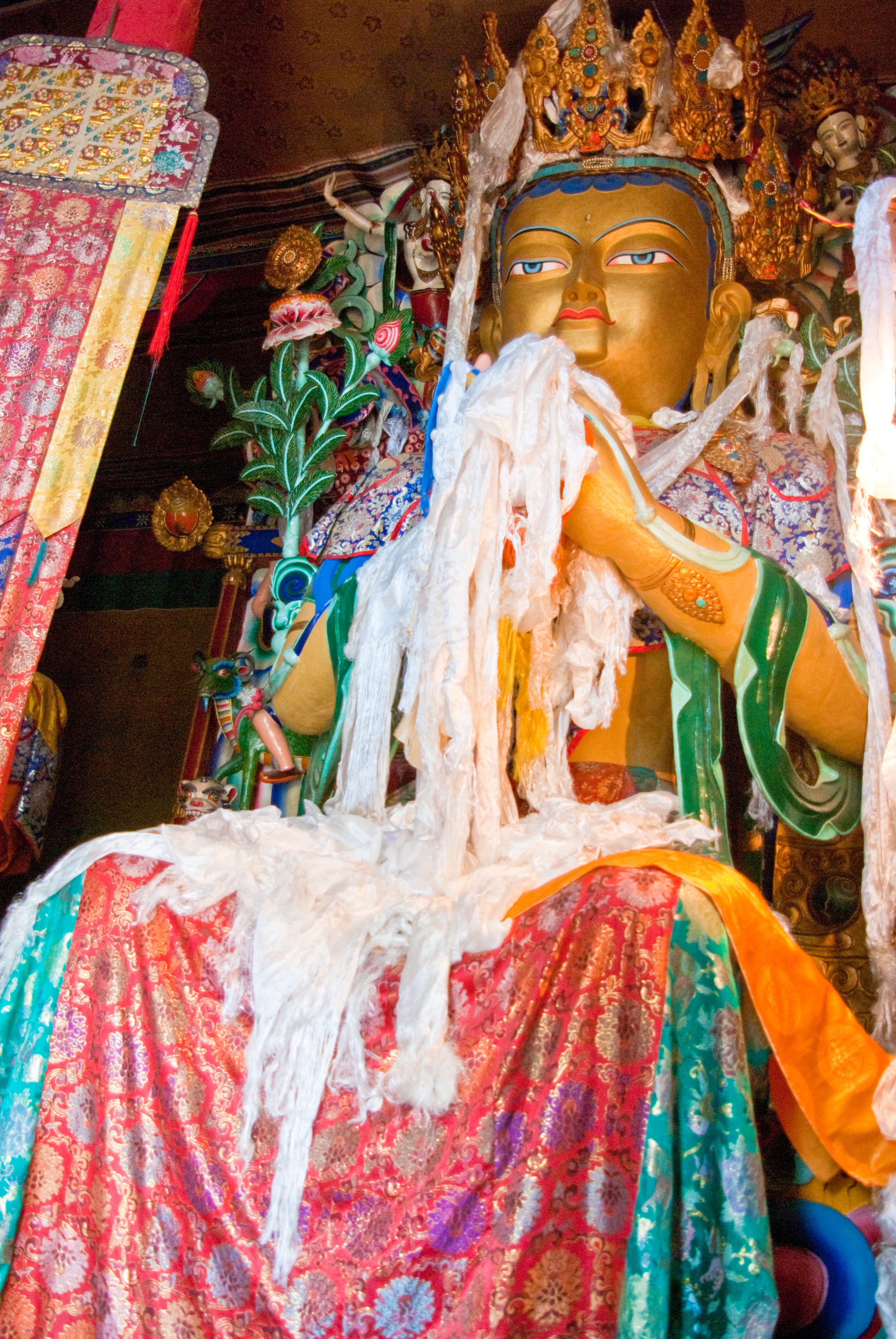 Reting monastery